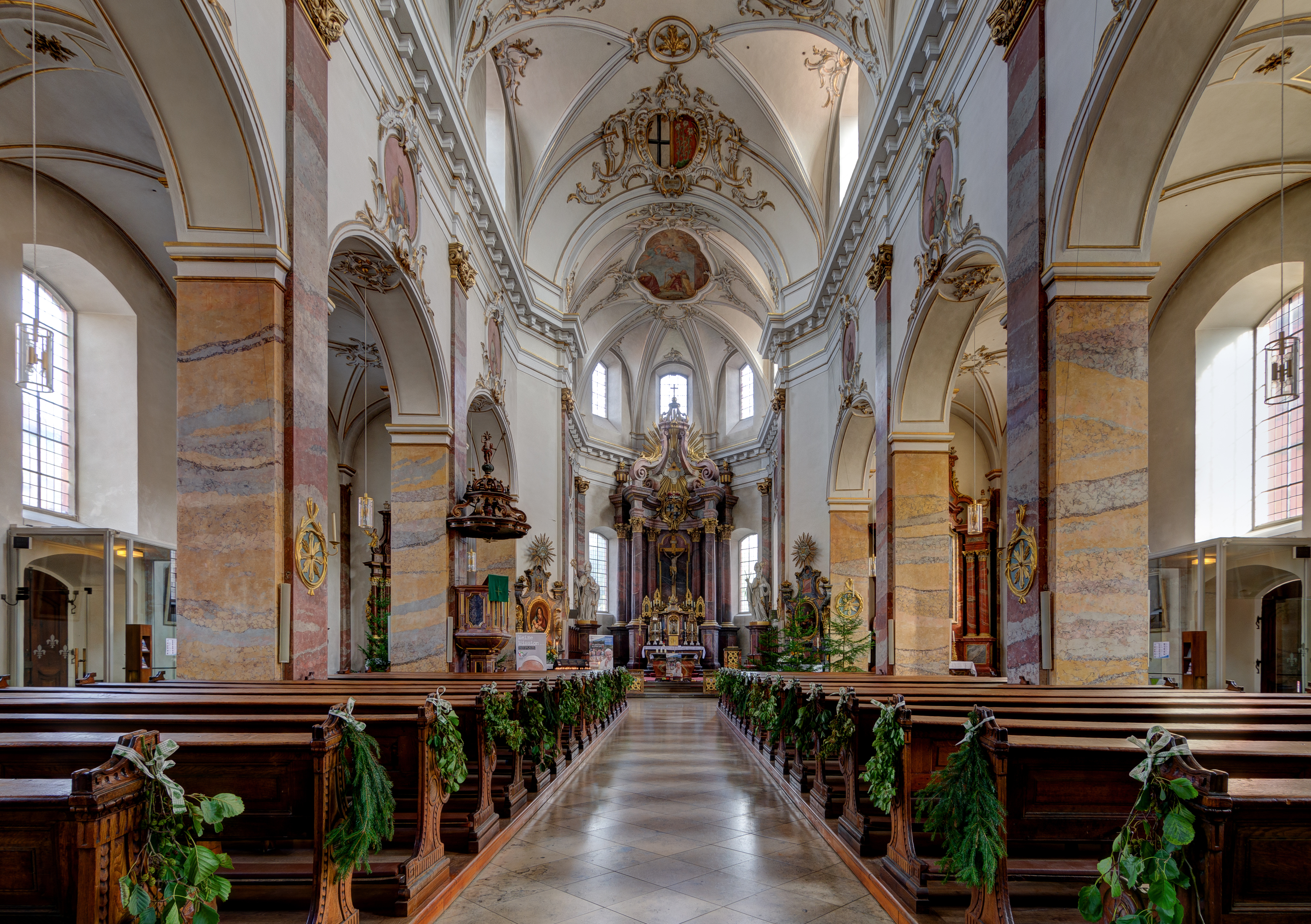 Fulda (Hesse, Germany) – Catholic Saint Blaise's Parish Church – interior, seen through the central nave